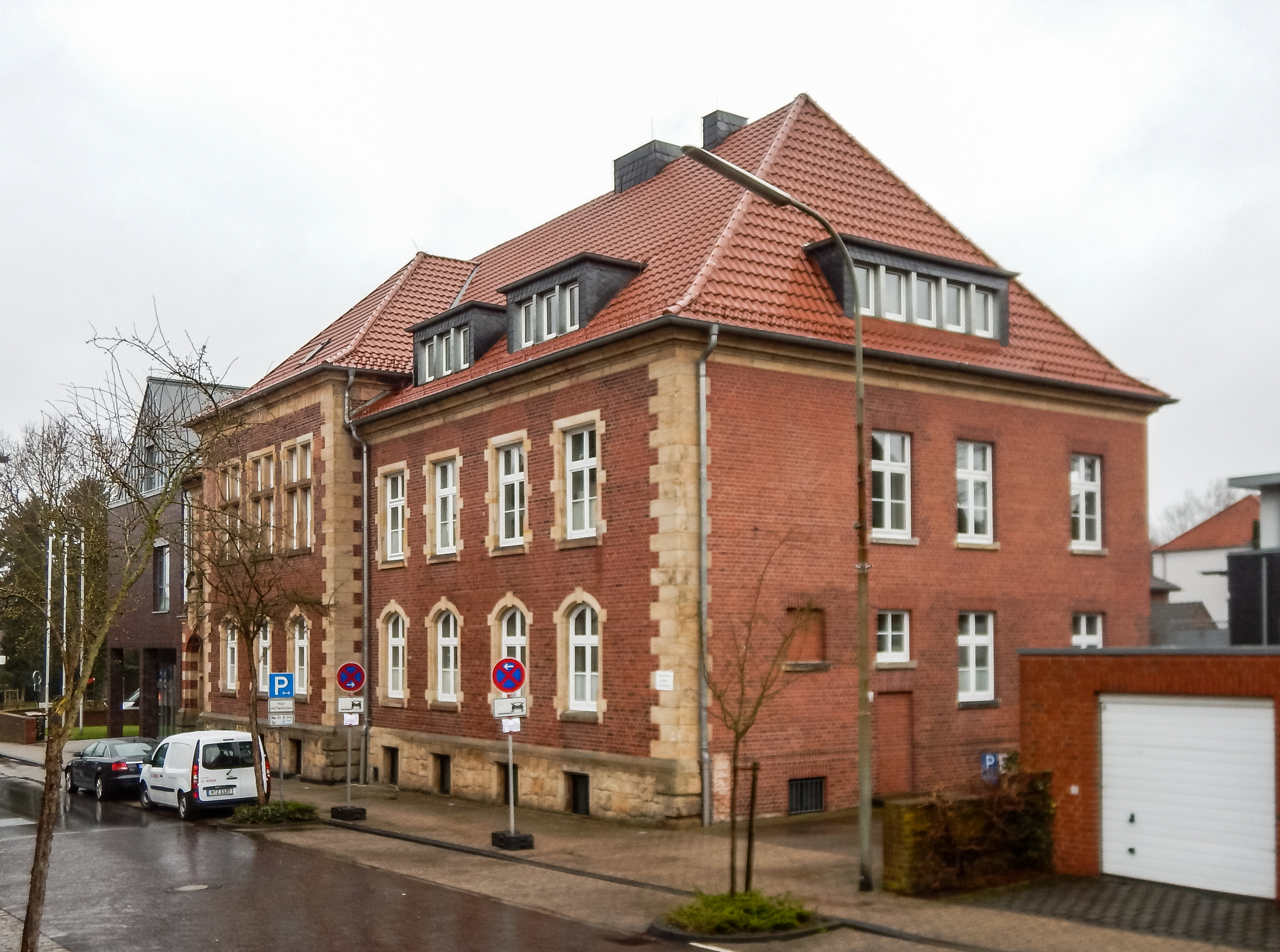 District Court, Dülmen, North Rhine-Westphalia, Germany